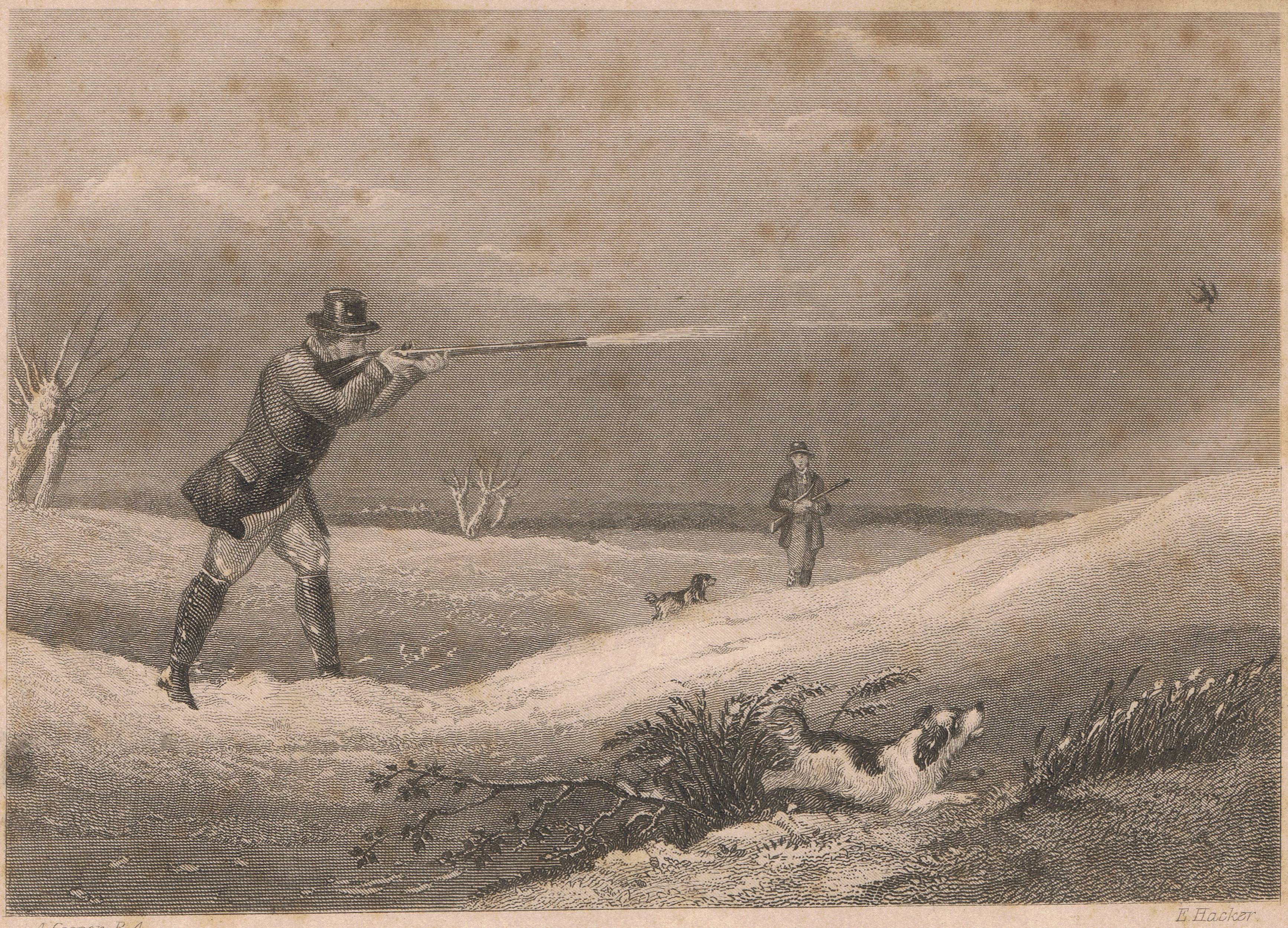 Scan (my me, R. de SalisRodolph (talk) 00:38, 27 May 2014 (UTC)) of 1866 engraving by Edward H. Hacker (1813-1905), after Abraham Cooper, RA, (1787–1868), print of shooting scene, UK.